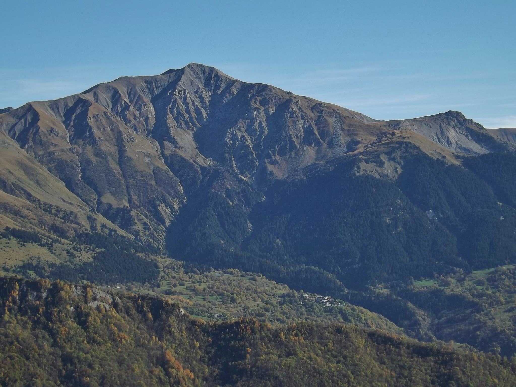 Panoramic sight on the French commune of Montaimont with the mont du Fût mount (2,824 meters high), in Savoie, France.